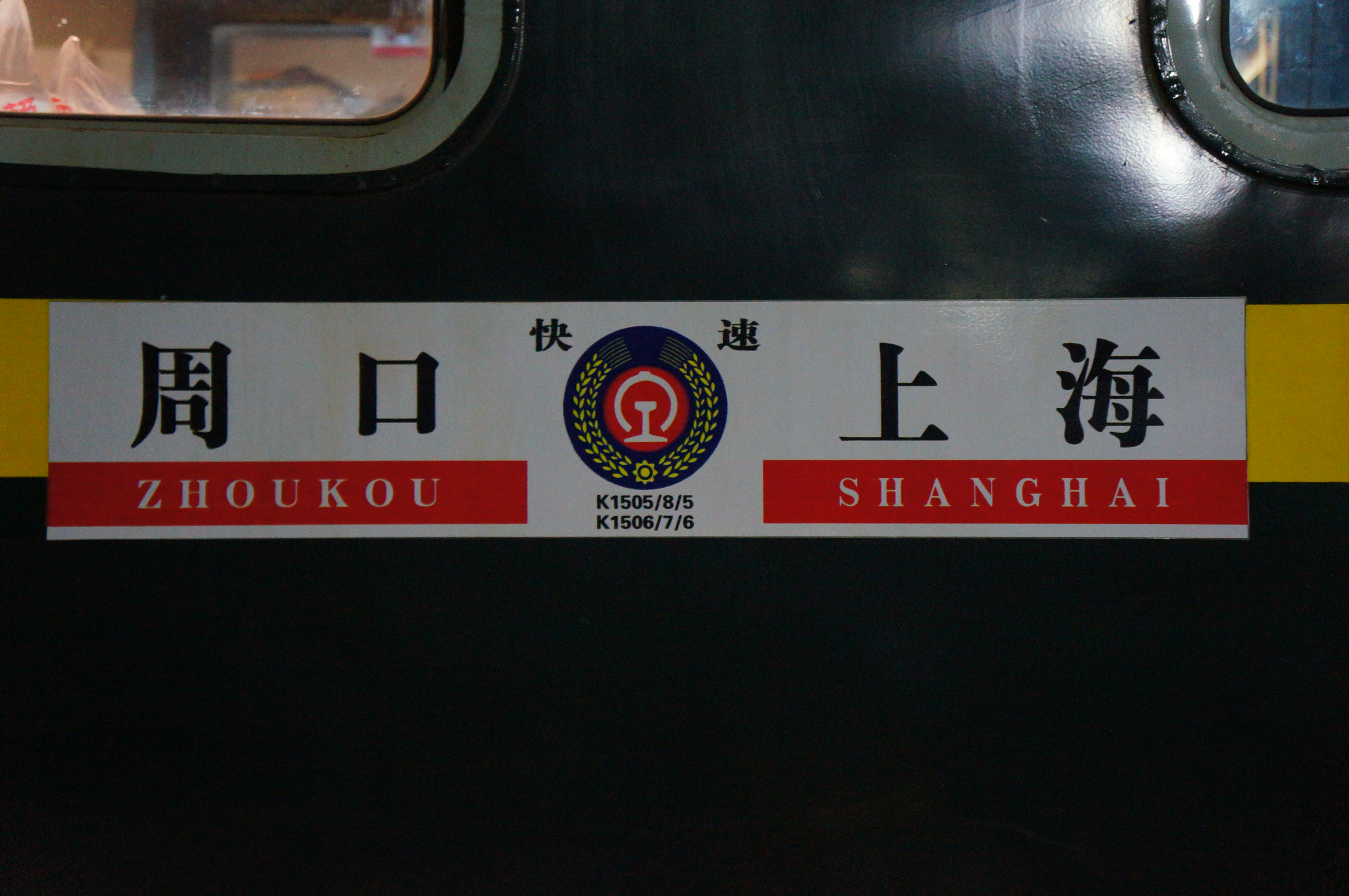 K1505 6 7 8 infobaord in 201705. All tickets were sold out... I have to stand for about 6 hours.....Taken at Wuxi Station